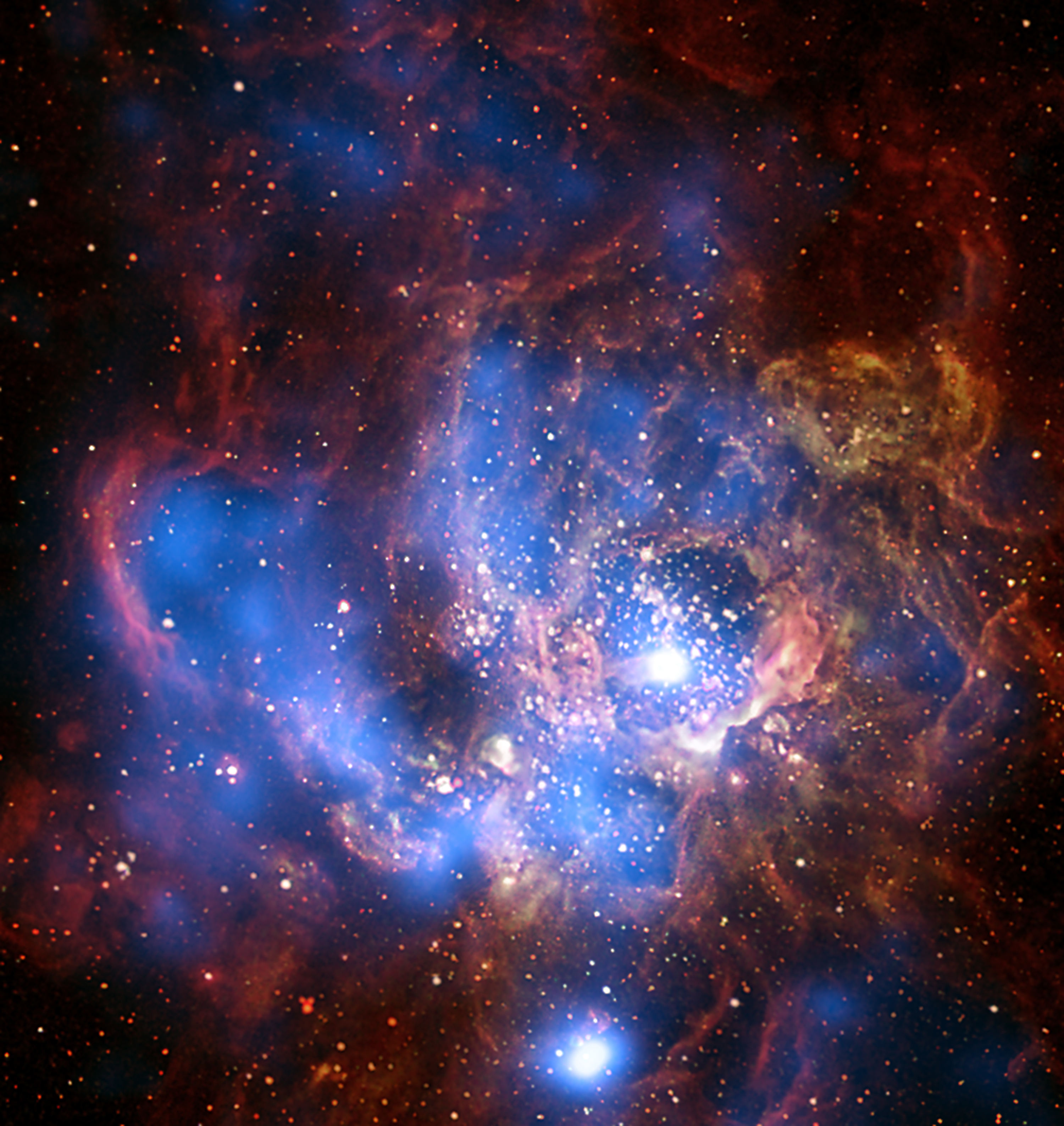 Description: This composite image from Chandra X-ray data (colored blue) and optical light data from the Hubble (red, green and yellow) shows a divided neighborhood where some 200 hot, young, massive stars reside. Bubbles in the cooler gas and dust have been generated by powerful stellar winds, which are then filled with hot, X-ray emitting gas. Scientists find the amount of hot gas detected in the bubbles on the right side corresponds to the amount entirely powered by winds from the 200 hot massive stars. The situation is different on the left side where the amount of X-ray gas cannot explain the brightness of the X-ray emission. The bubbles on this left side appear to be much older and were likely created and powered by young stars and supernovas in the past. Creator/Photographer: Chandra X-ray Observatory NASA's Chandra X-ray Observatory, which was launched and deployed by Space Shuttle Columbia on July 23, 1999, is the most sophisticated X-ray observatory built to date. The mirrors on Chandra are the largest, most precisely shaped and aligned, and smoothest mirrors ever constructed. Chandra is helping scientists better understand the hot, turbulent regions of space and answer fundamental questions about origin, evolution, and destiny of the Universe. The images Chandra makes are twenty-five times sharper than the best previous X-ray telescope. NASA's Marshall Space Flight Center in Huntsville, Ala., manages the Chandra program for NASA's Science Mission Directorate in Washington. The Smithsonian Astrophysical Observatory controls Chandra science and flight operations from the Chandra X-ray Center in Cambridge, Massachusetts. Medium: Chandra telescope x-ray Date: 2009 Persistent URL: [1] Repository: Smithsonian Astrophysical Observatory Gift line: X-ray: NASA/CXC/CfA/R. Tullmann et al.; Optical: NASA/AURA/STScI Accession number: n604